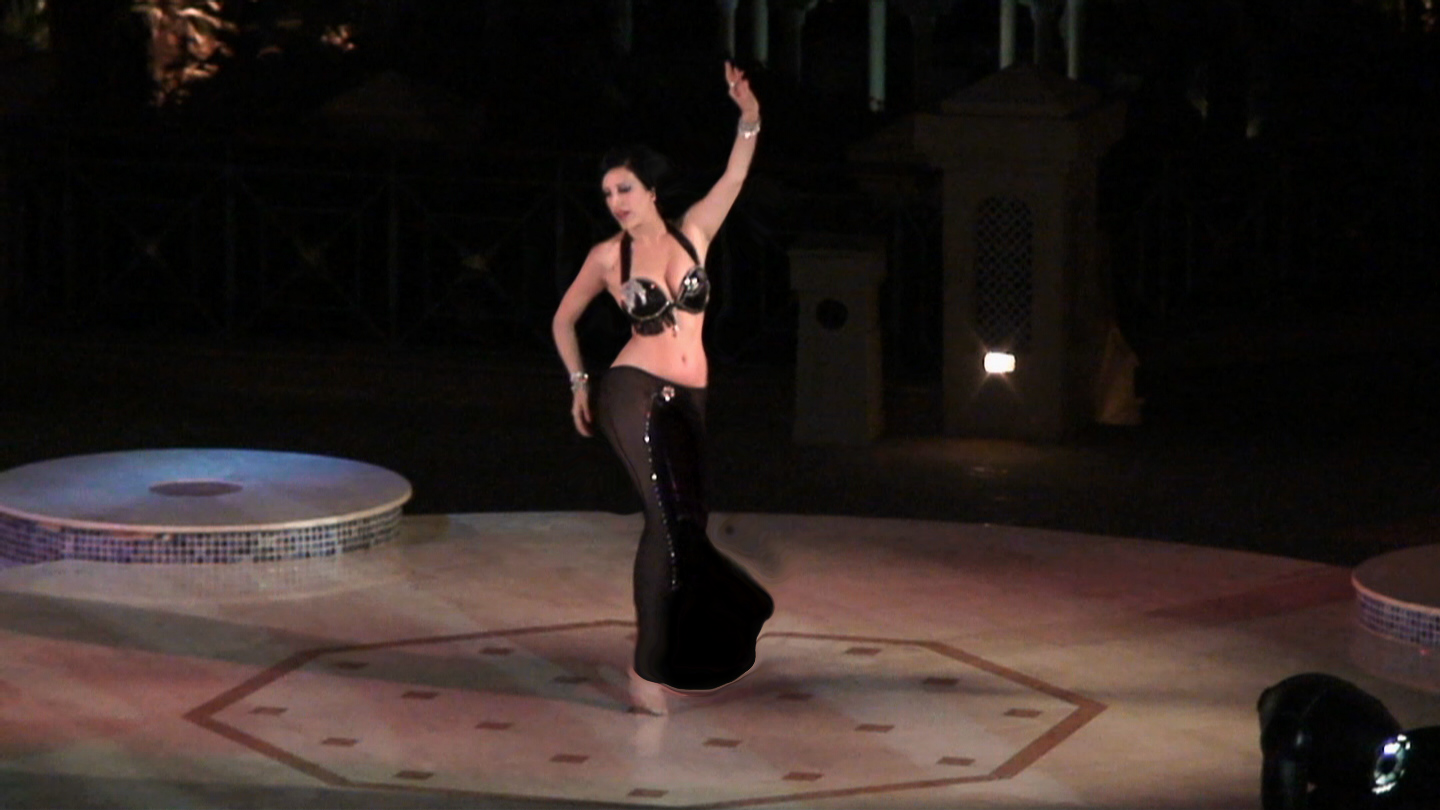 This is an image of dancer Layla Taj.